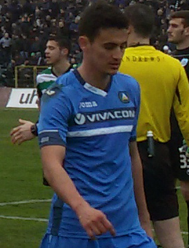 Bulgarian footballer Georgi Kostadinov